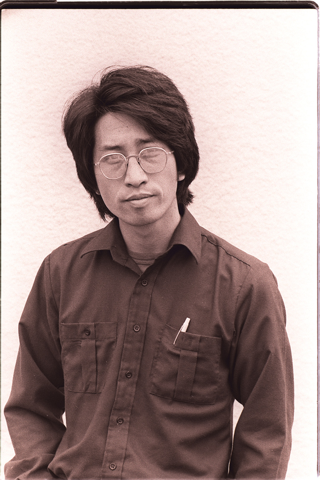 Asian American writer Shawn Hsu Wong